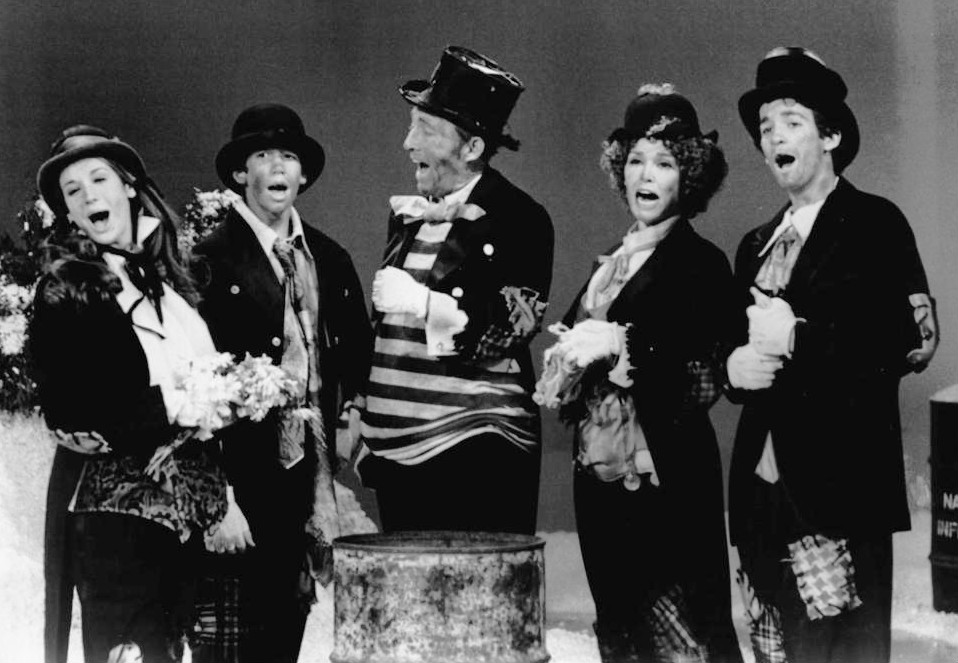 Photo of Bing Crosby and family in a skit from his 1974 Christmas special. From left: Mary Frances, Nathaniel, Bing, Kathryn and Harry. Crosby has four sons from his first marriage.